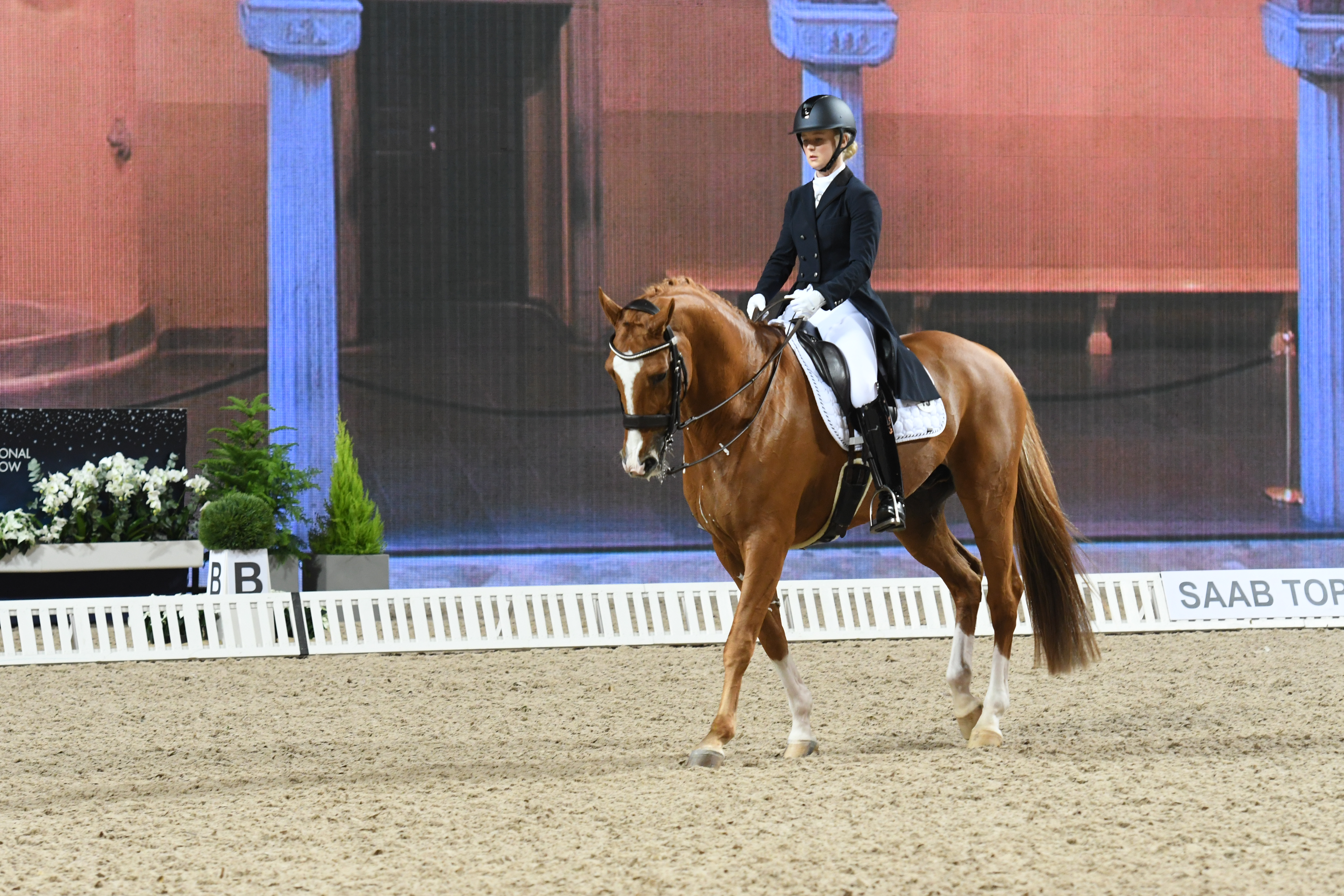 Juliette Ramel and Wall Street JV during SAAB Top Ten Dressage Grand Prix during Sweden International Horse Show 2018.